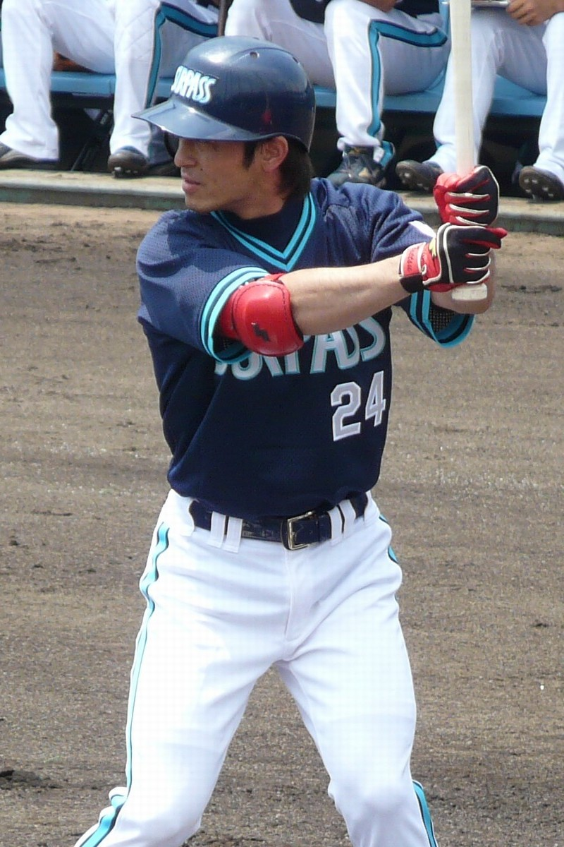 Mitsutaka Gotoh, infielder of the Surpass, at Hanshin Naruohama Baseball Ground.